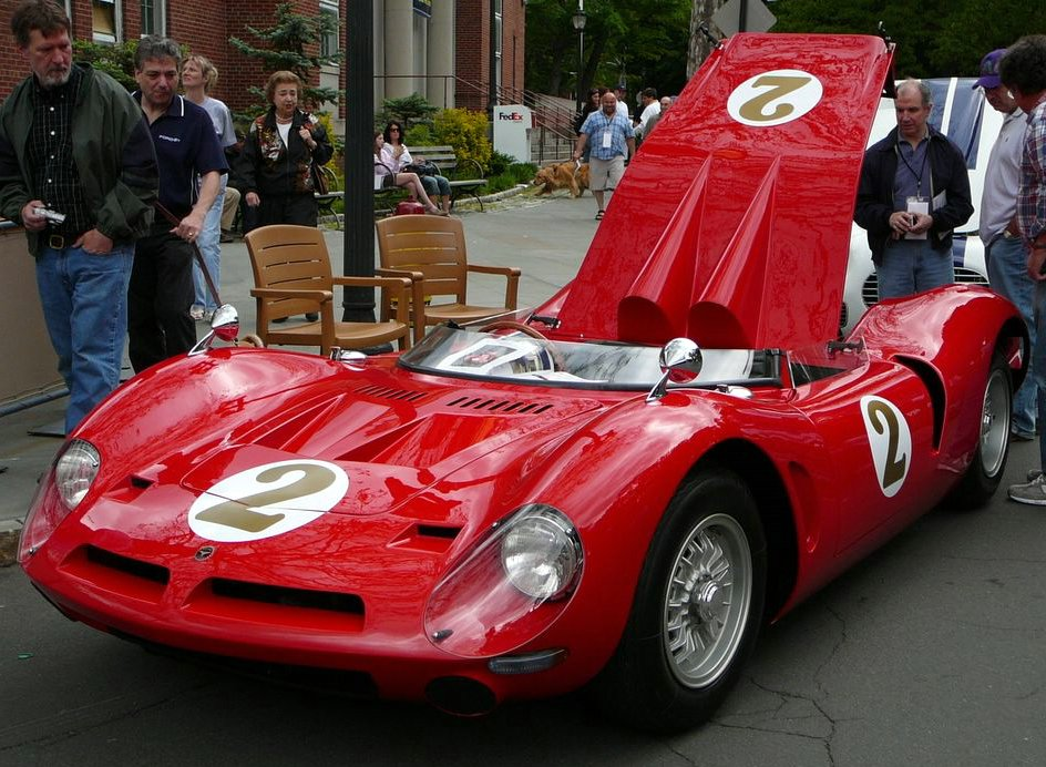 1967 Bizzarrini P538 (chassis #002), with Lamborghini V12 engine installed.